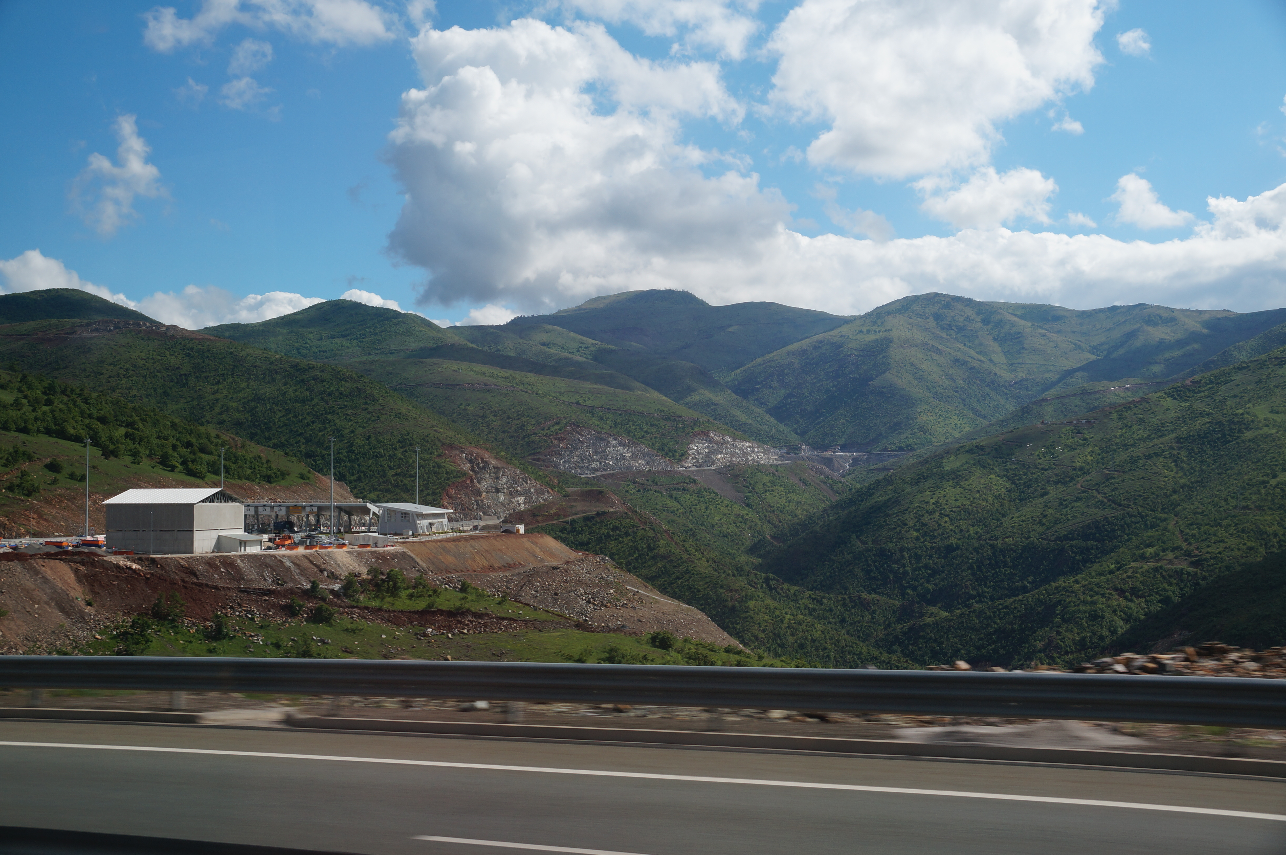 Toll plaza of Kalimash, Kukës, Northern Albania